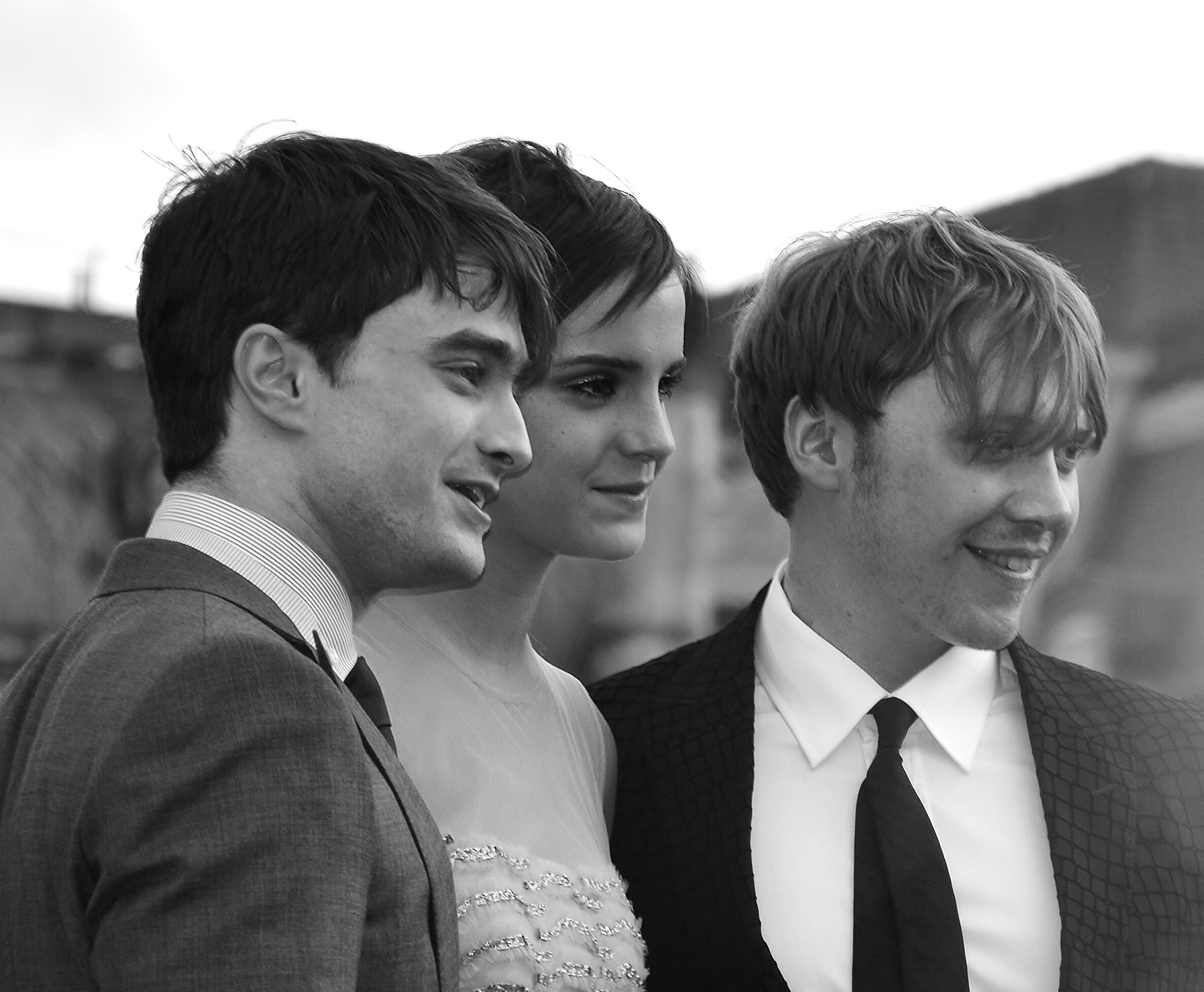 Daniel Radcliffe, Emma Watson & Rupert Grint (left to right) at the world premiere of Harry Potter & The Deathly Hallows Part 2 in London, England